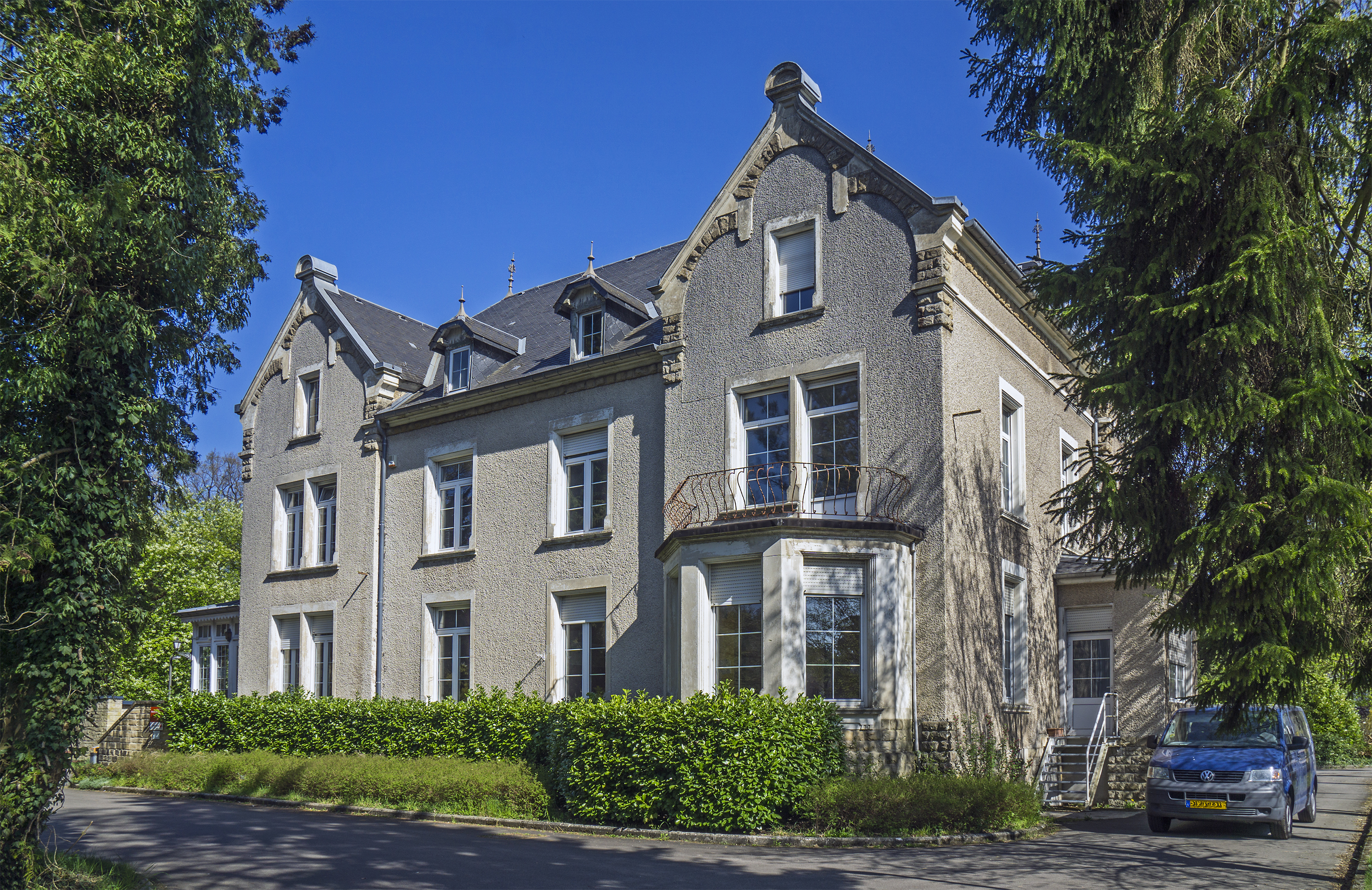 Villa Collart in Steinfort, 15 rue de Hobscheid